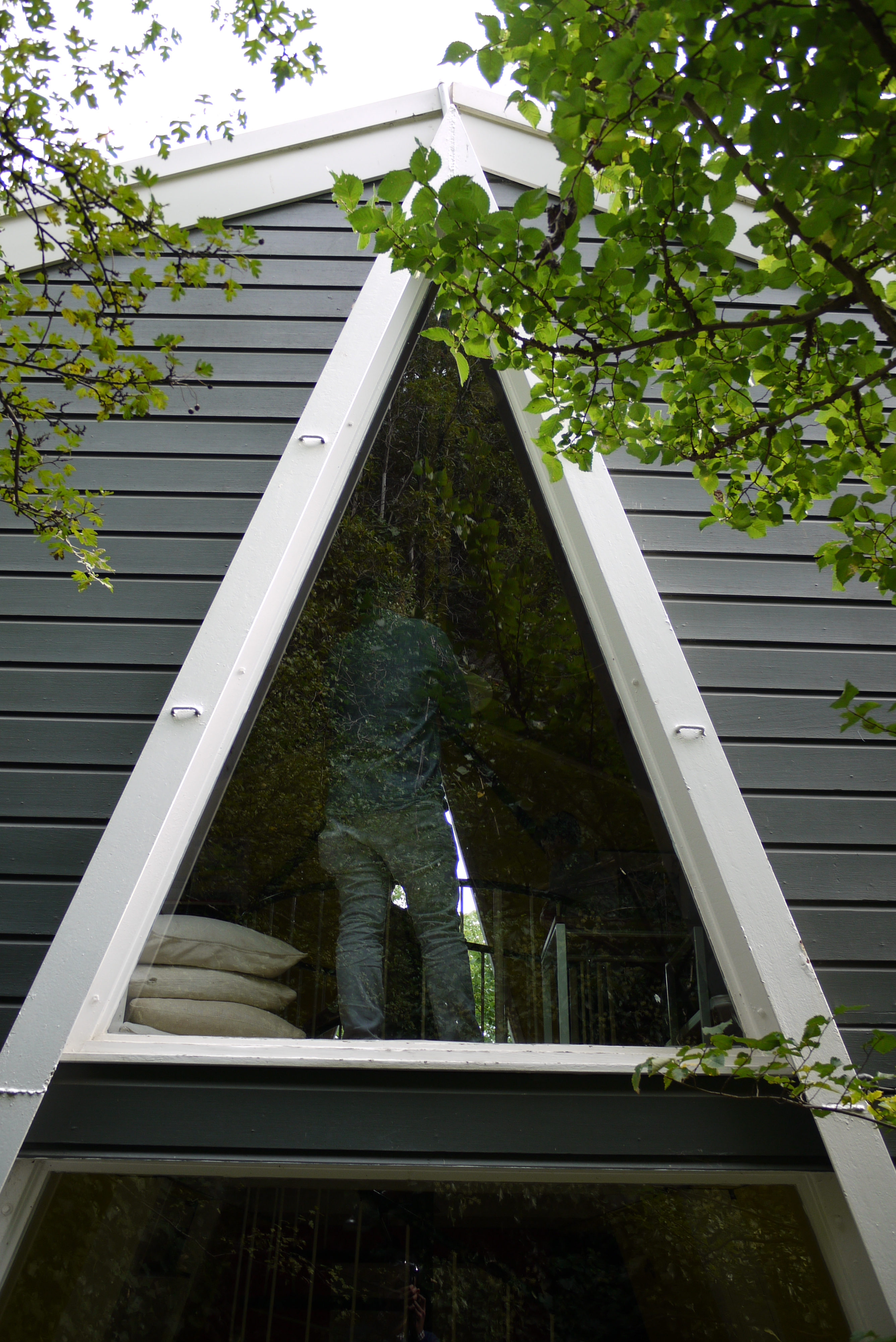 An upstairs window in Peter McIntyre's River Residence.